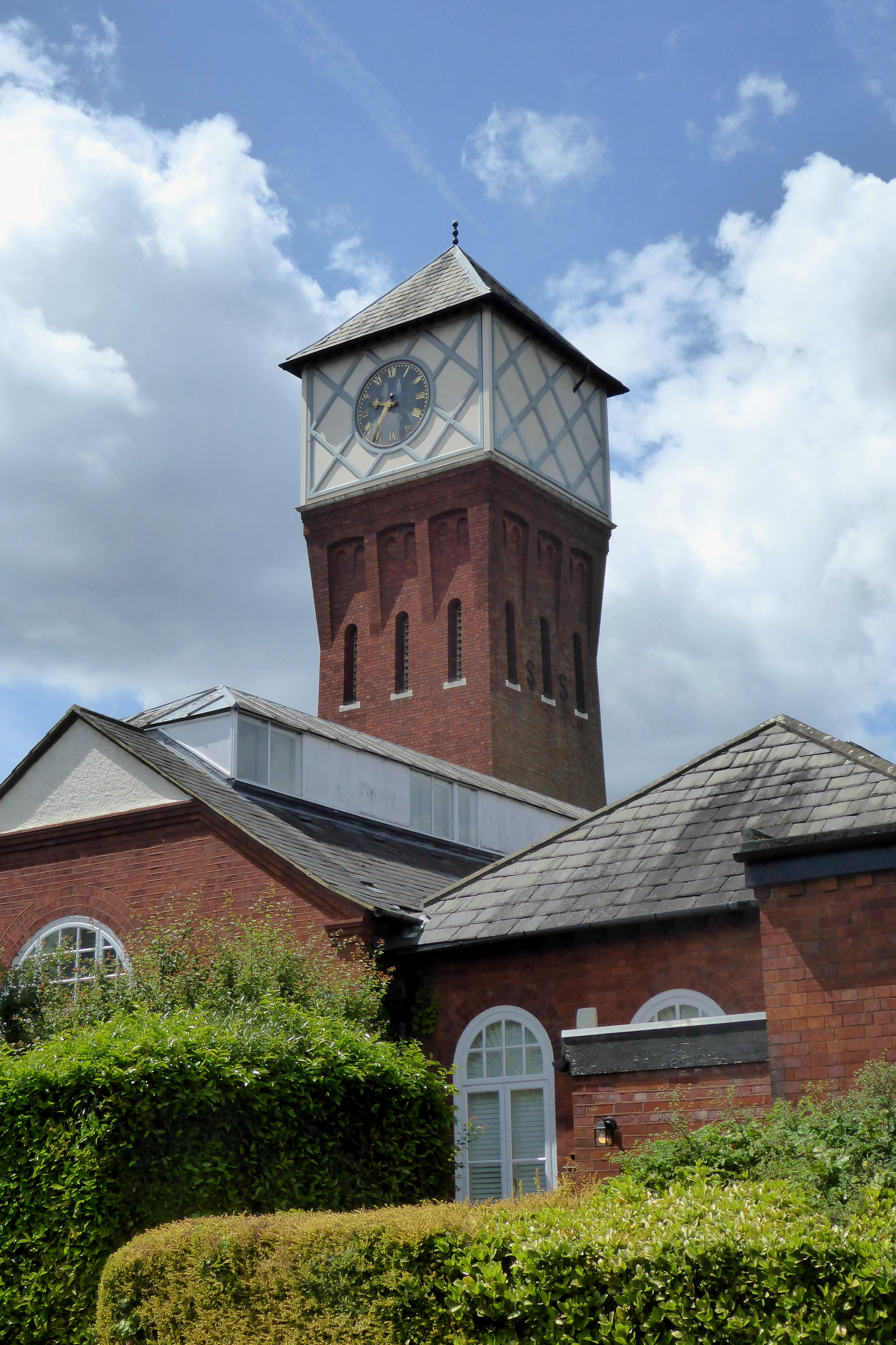 The Clocktower in the Hollies, a housing estate in Lamorbey, London Borough of Bexley.